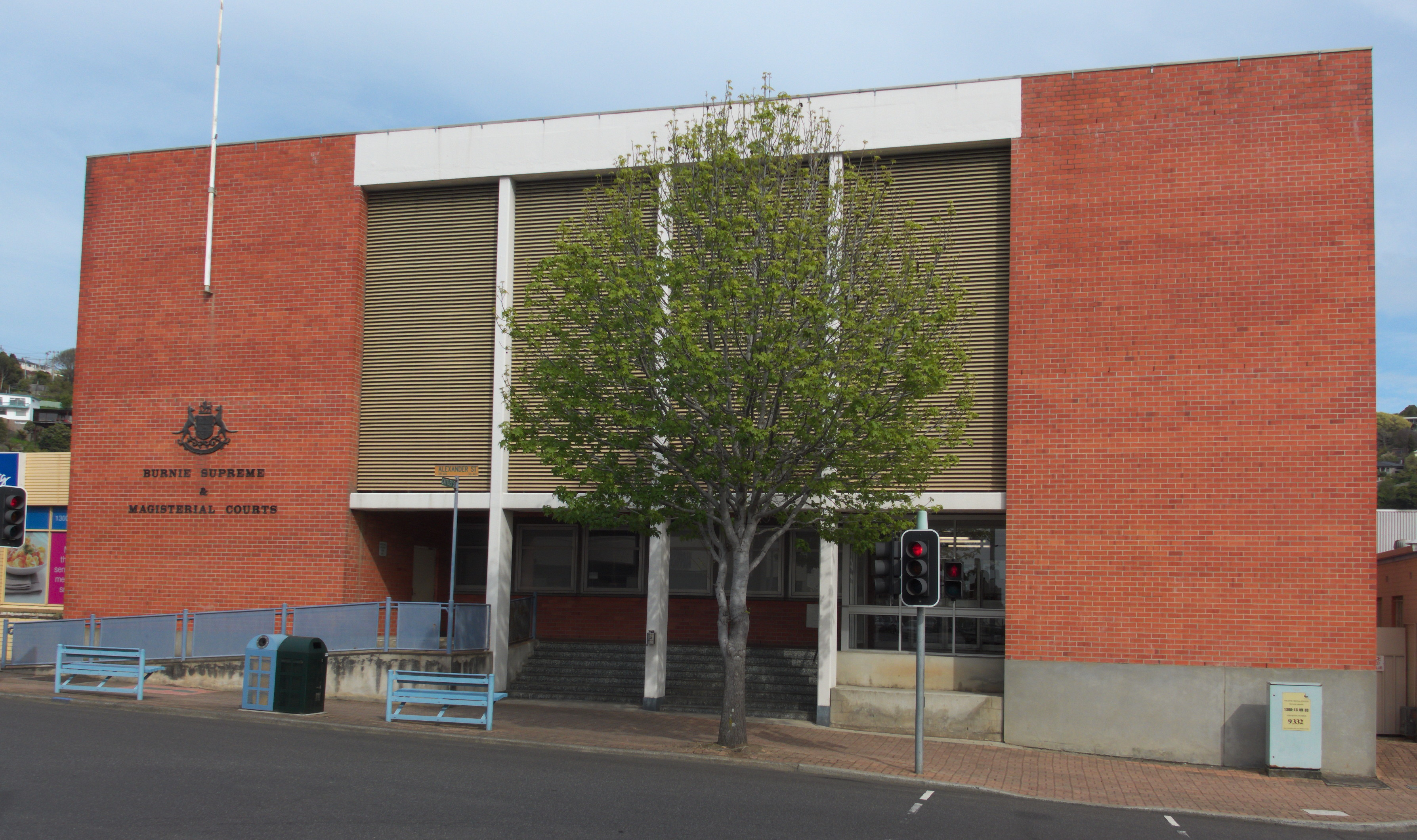 Burnie Supreme & Magisterial Courts in Alexander Street.